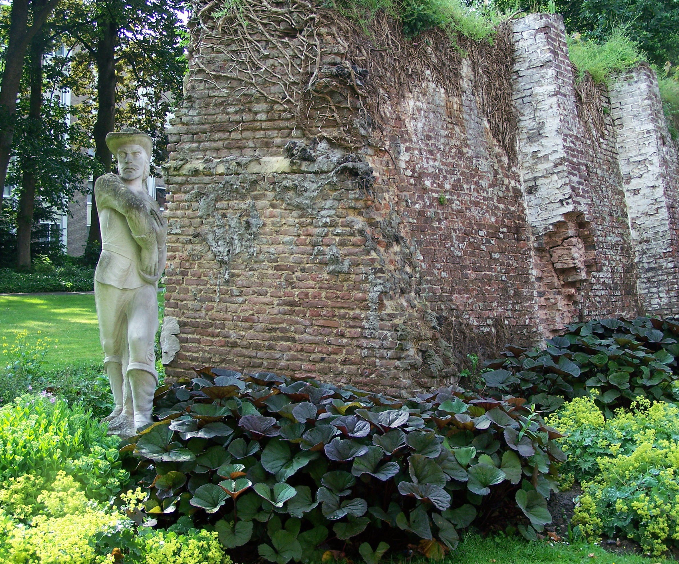 Sculpture of d'Artagnan by Matthieu Camps. Placed at the Klevarie at the Polvertorenstraat in Maastricht in ?. Before it was placed at it's current place it stood inside the Opera Zuid building (1954 till 1973), then at the Waldeckbastion (73-77) and then at the Tongersestraat.